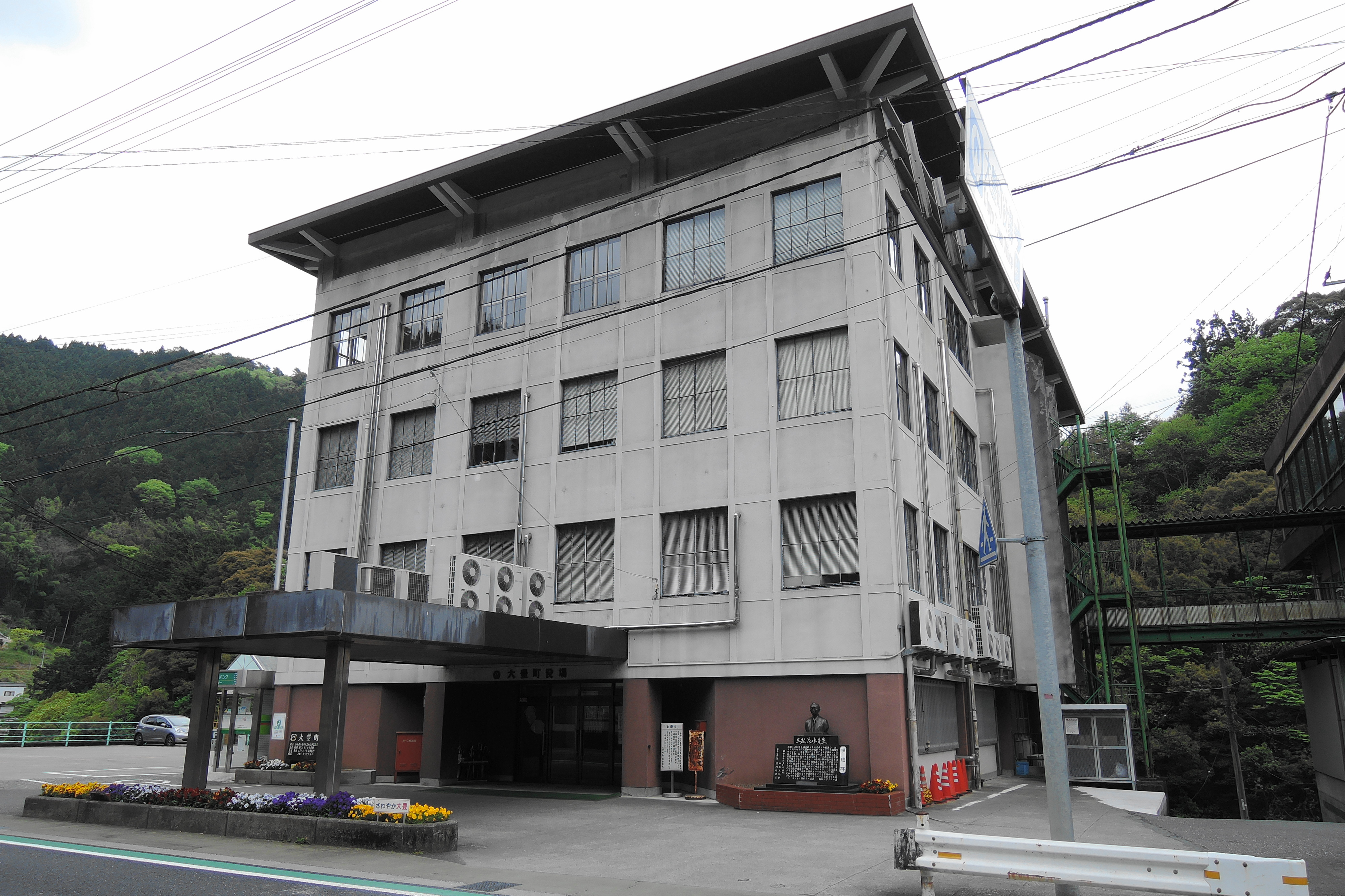 Otoyo town hall,Kochi prefecture,Japan